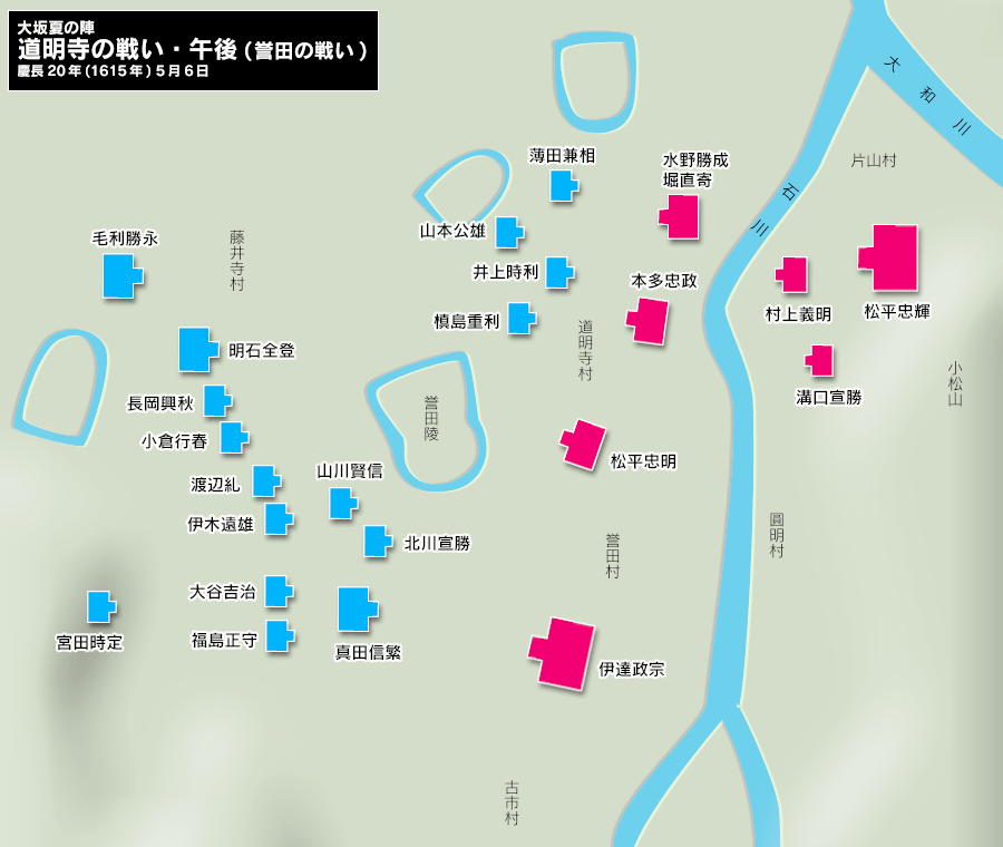 Image of 道明寺の戦い(2 of 2) the part of 大坂の役